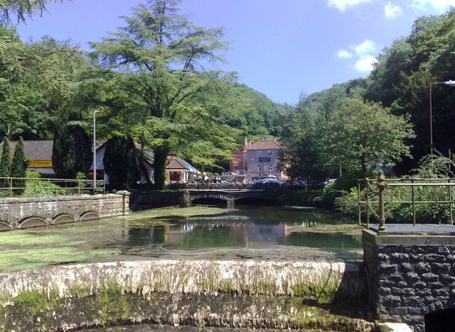 Dam below Cheddar Gorge